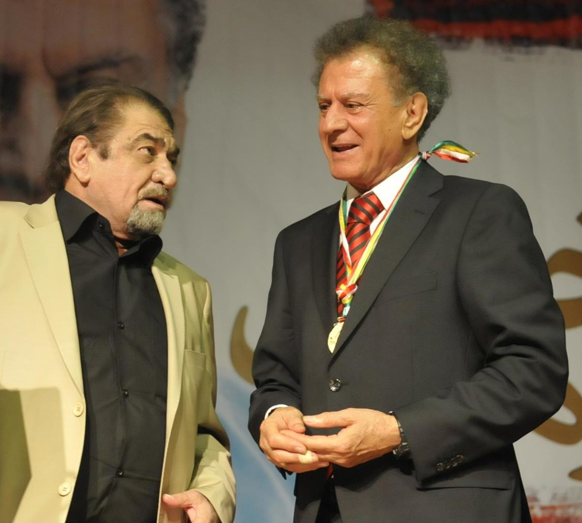 Sherko Bekas and Mazhar Xaliqi together